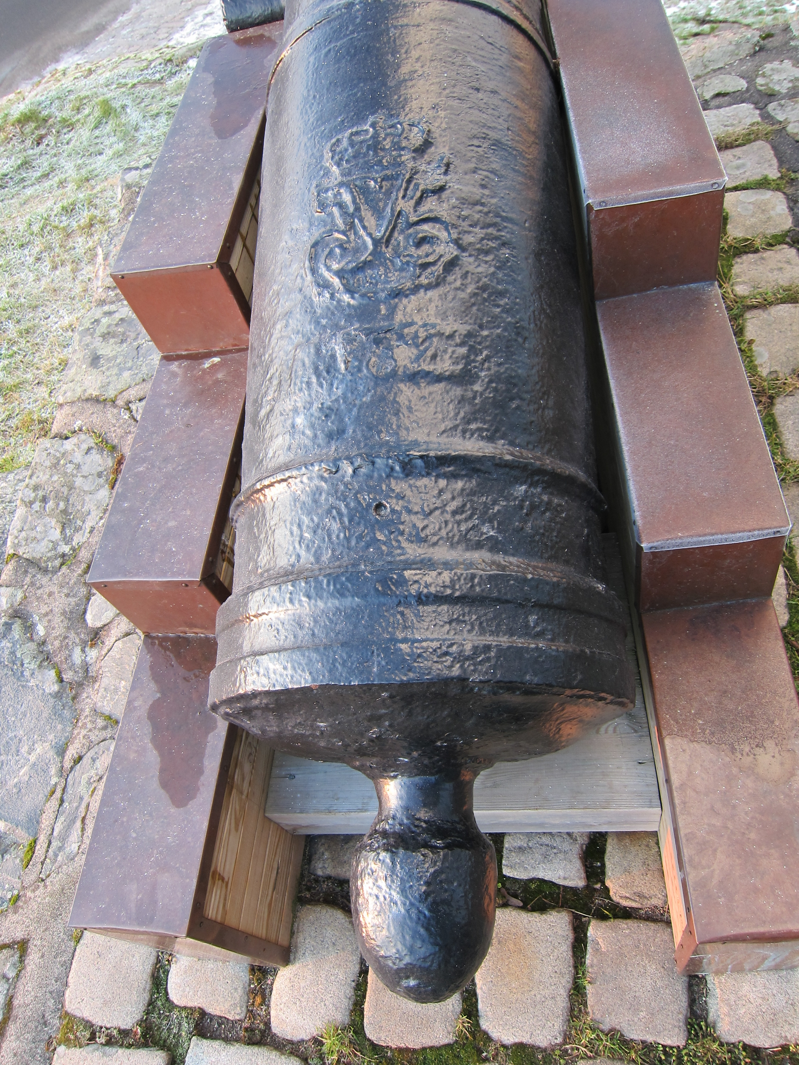 The cannon was manufactured at Moss Ironworks in 1762 and found and recovered in Vardø in 1970, it is now on display beside the main building of the old iron works in Moss.